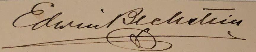 Original autograph of pianomaker Edwin Bechstein